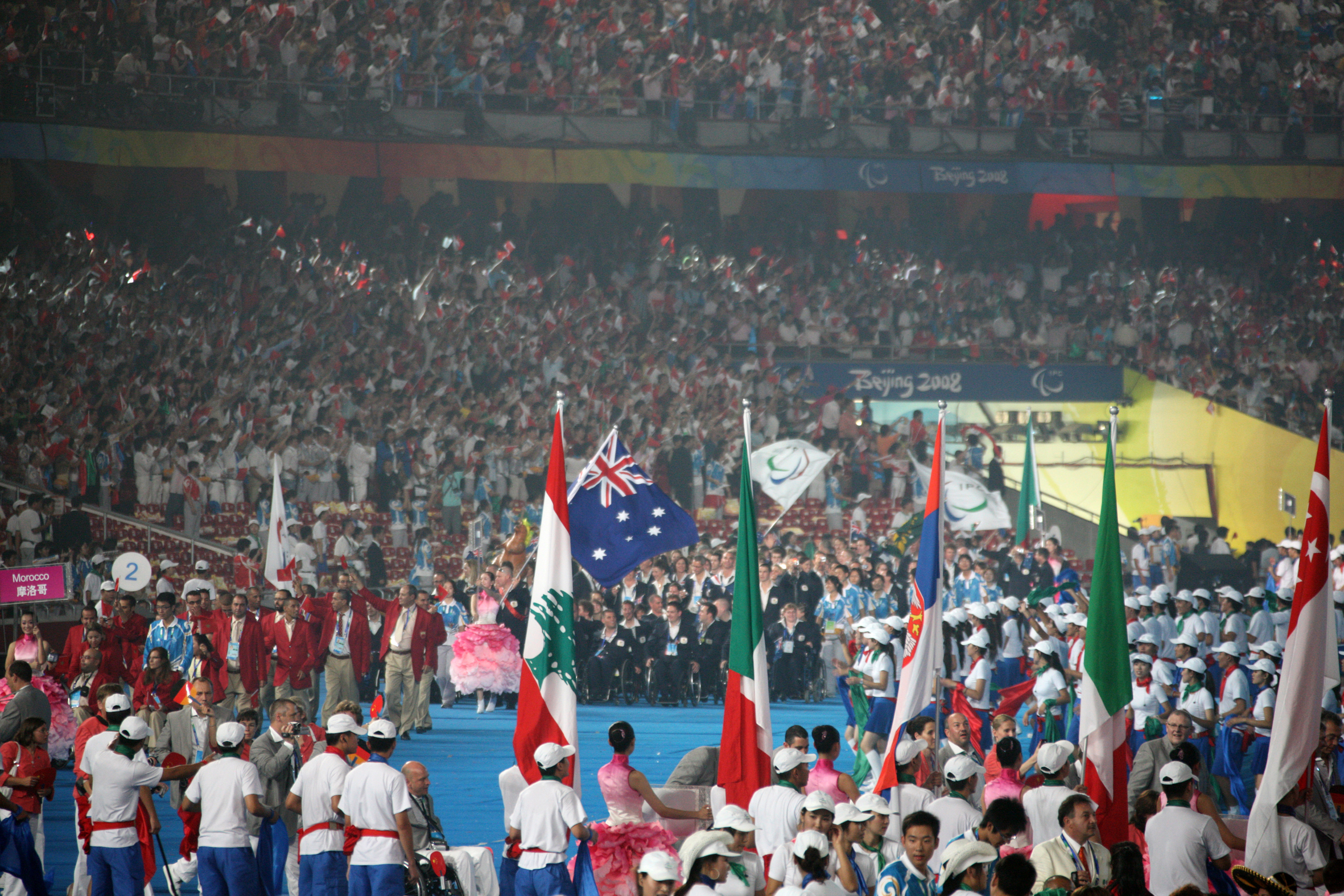 The Australian Paralympic Team enters the stadium during the opening ceremony of the Beijing 2008 Paralympic Games